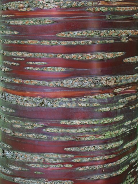 Chesters Walled Garden - trunk of the Tibetan cherry tree. The Tibetan cherry tree (Prunus serrula) was planted in 1986 and is one of the biggest specimen of its type in Britain